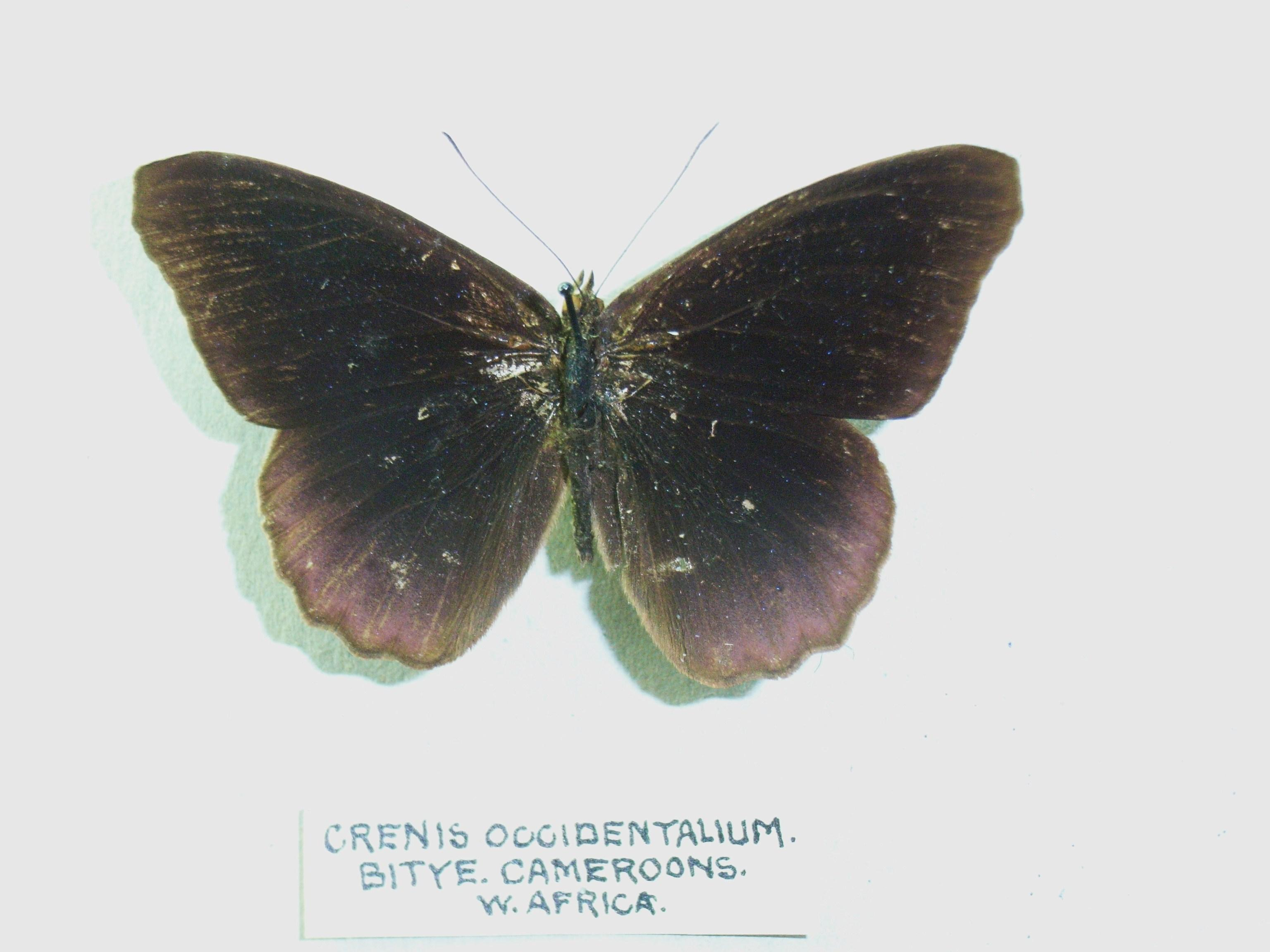 Crenis occidentalium:Biblidinae:Nymphalidae Valid name Sallya occidentalium (Mabille, 1876) Velvety Tree Nymph